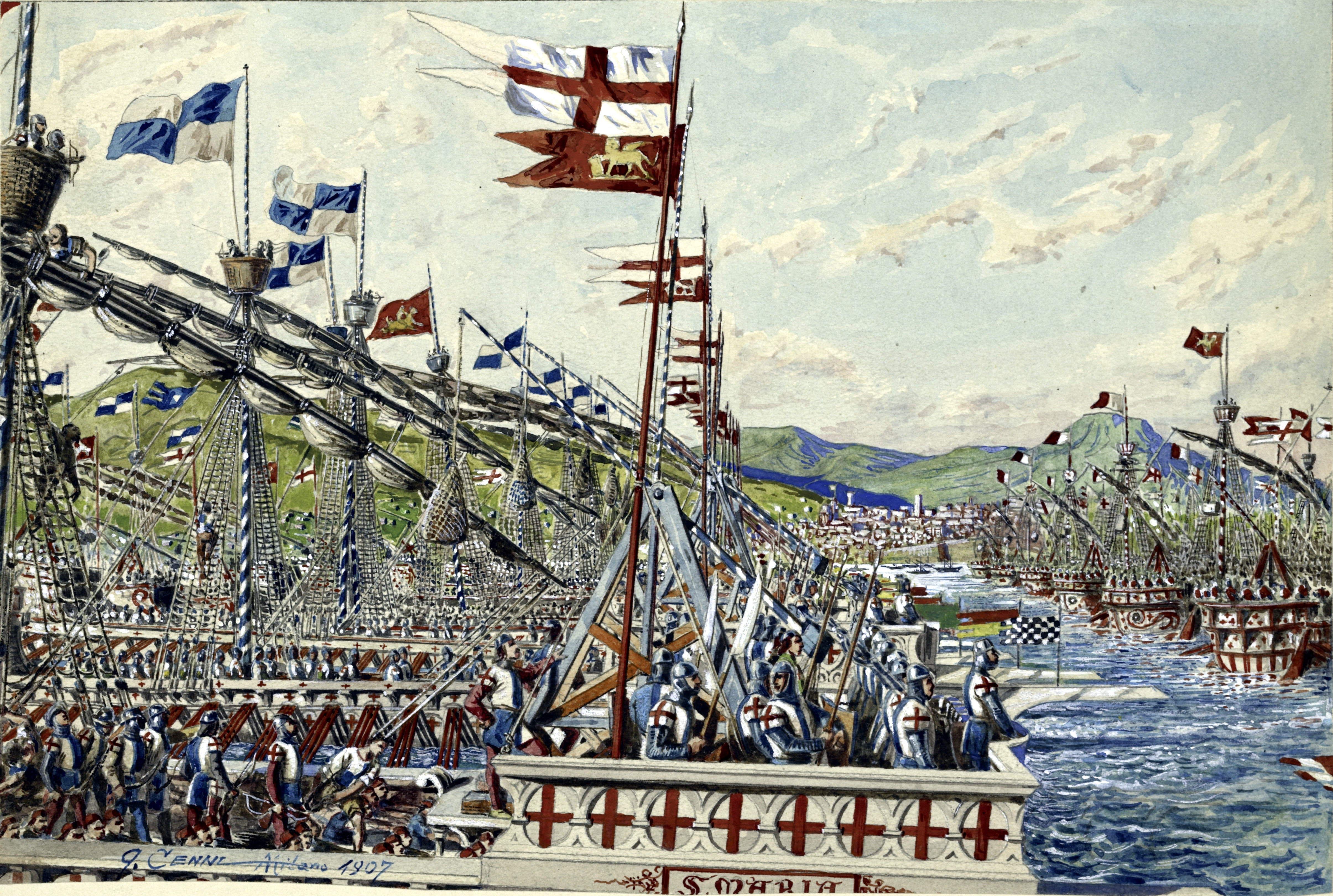 Fleet of Genoese galleys, 13th-14th centuries